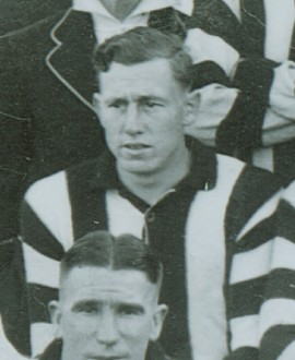 Photo of Reg Ryan in 1942